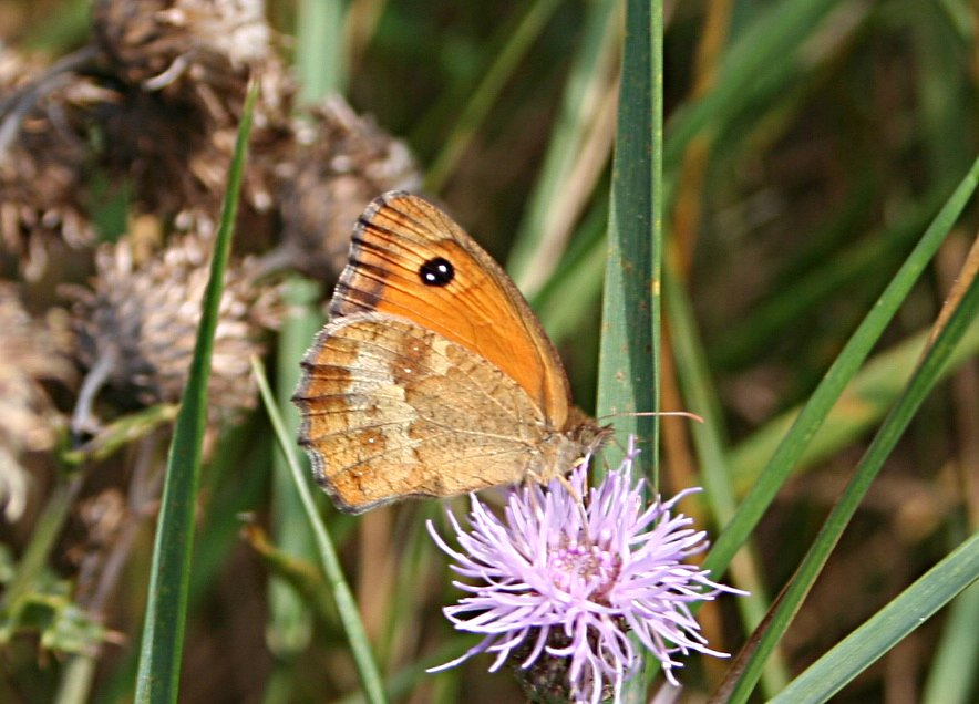 Pyronia tithonus photo by Jeffdelonge St-Martin-Labouval, 46, France, août 2006